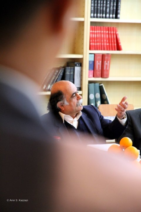 Photo by Amir Kazzazi